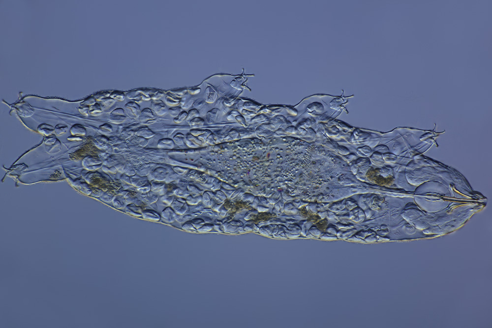 Tardigrades (commonly known as waterbears or moss piglets)